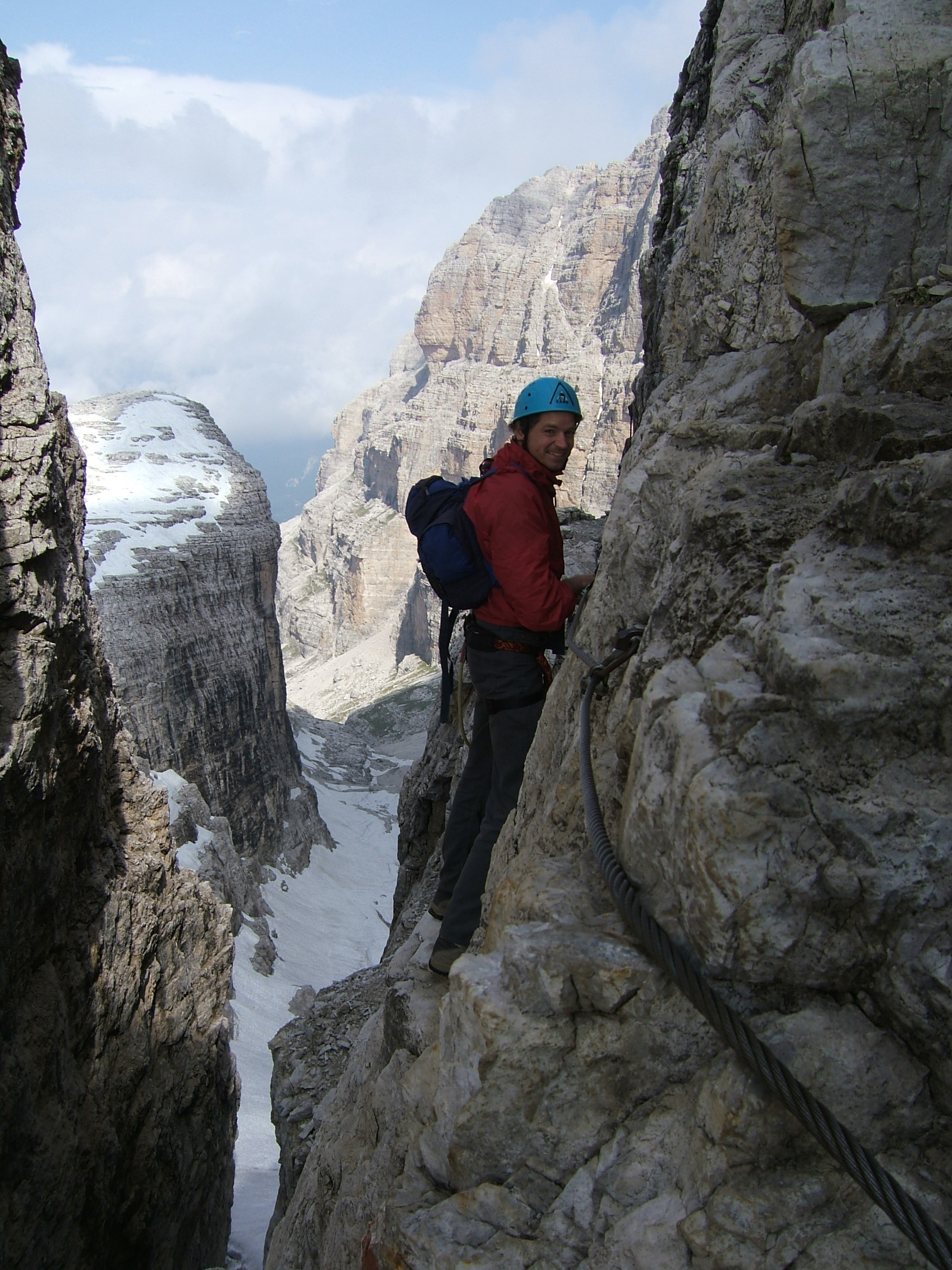 Via Ferrata route in Brenta Group